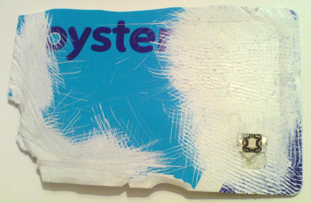 Partially destroyed Oyster Card